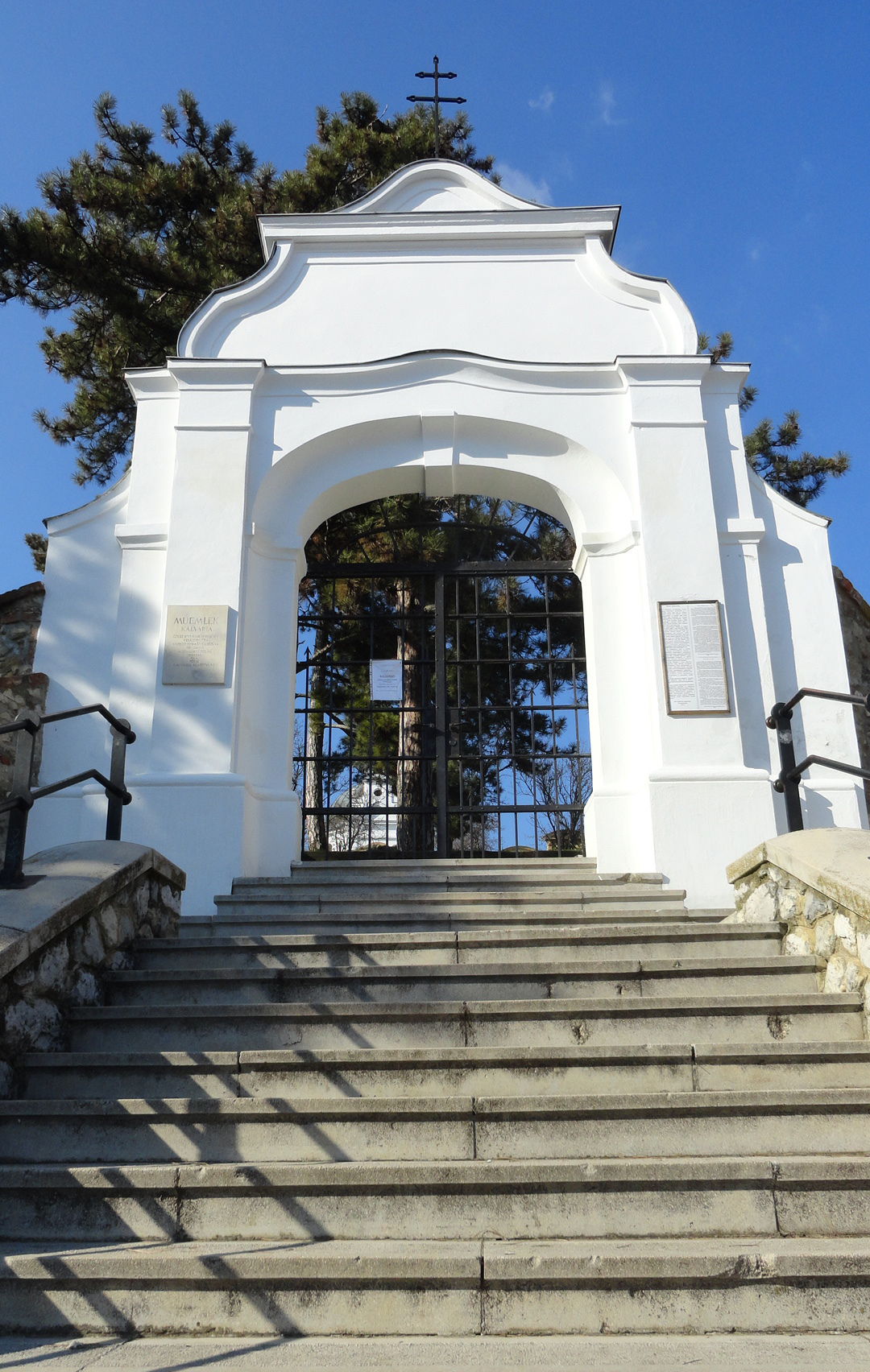 Gate of the Calvary Chapel in Pécs